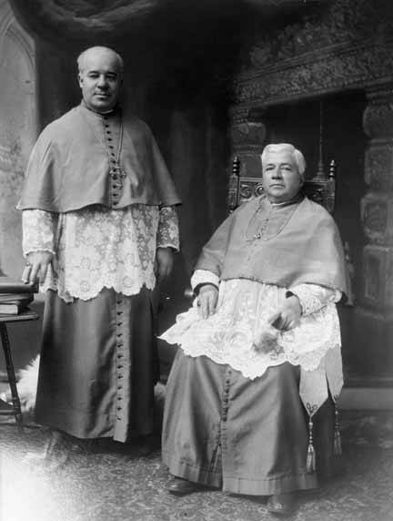 Archbishop J.B. Salpointe, seated and Archbishop Placide Chapelle standing, New Mexico